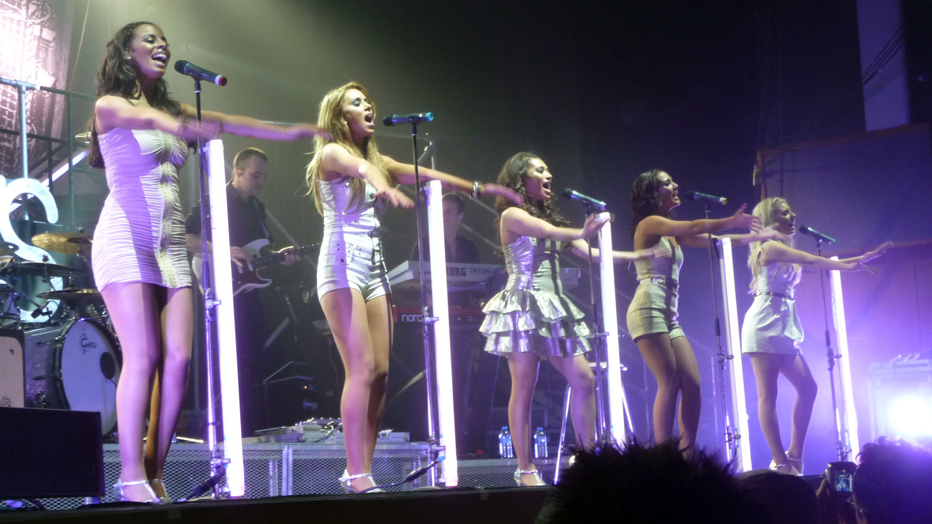 The Saturdays, in concert at the The Civic Hall in Wolverhampton, Birmingham